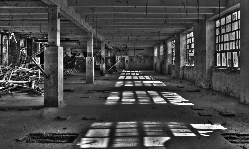 Image of the derelict building of the Offenbach (Germany) furrier plant Thorer & Co.